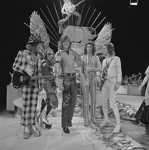 Slade in AVRO's TopPop (Dutch television show) in 1973